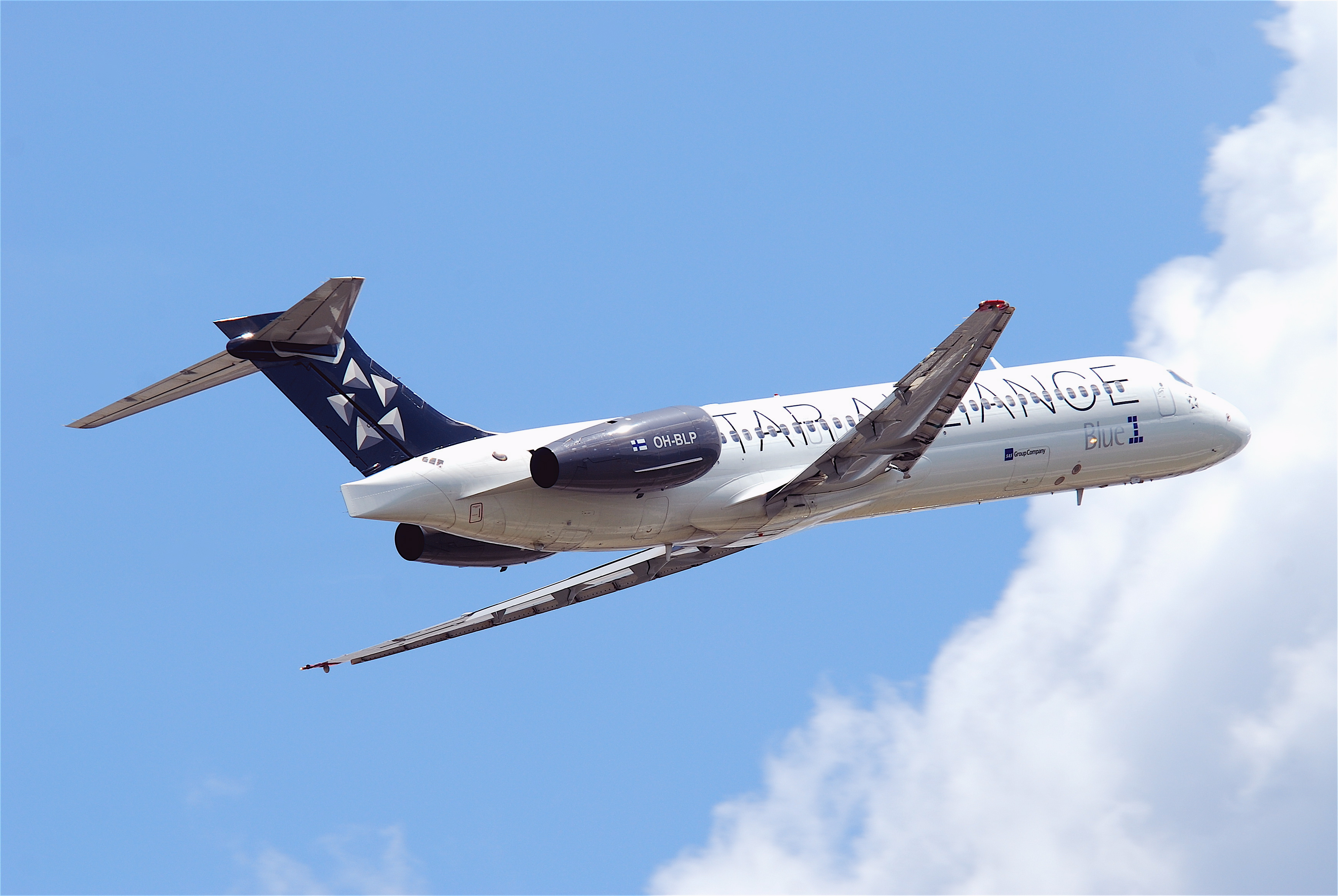 A Blue1 Boeing 717-23S aircraft (OH-BLP) at Zürich International Airport in July 2011.